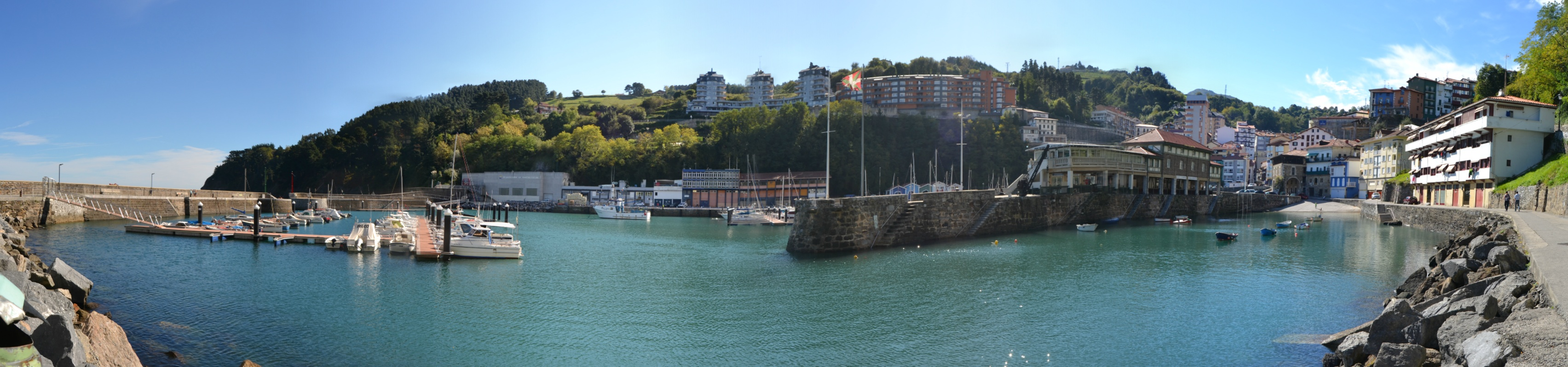 Port of Mutriku. Gipuzkoa, Basque Country